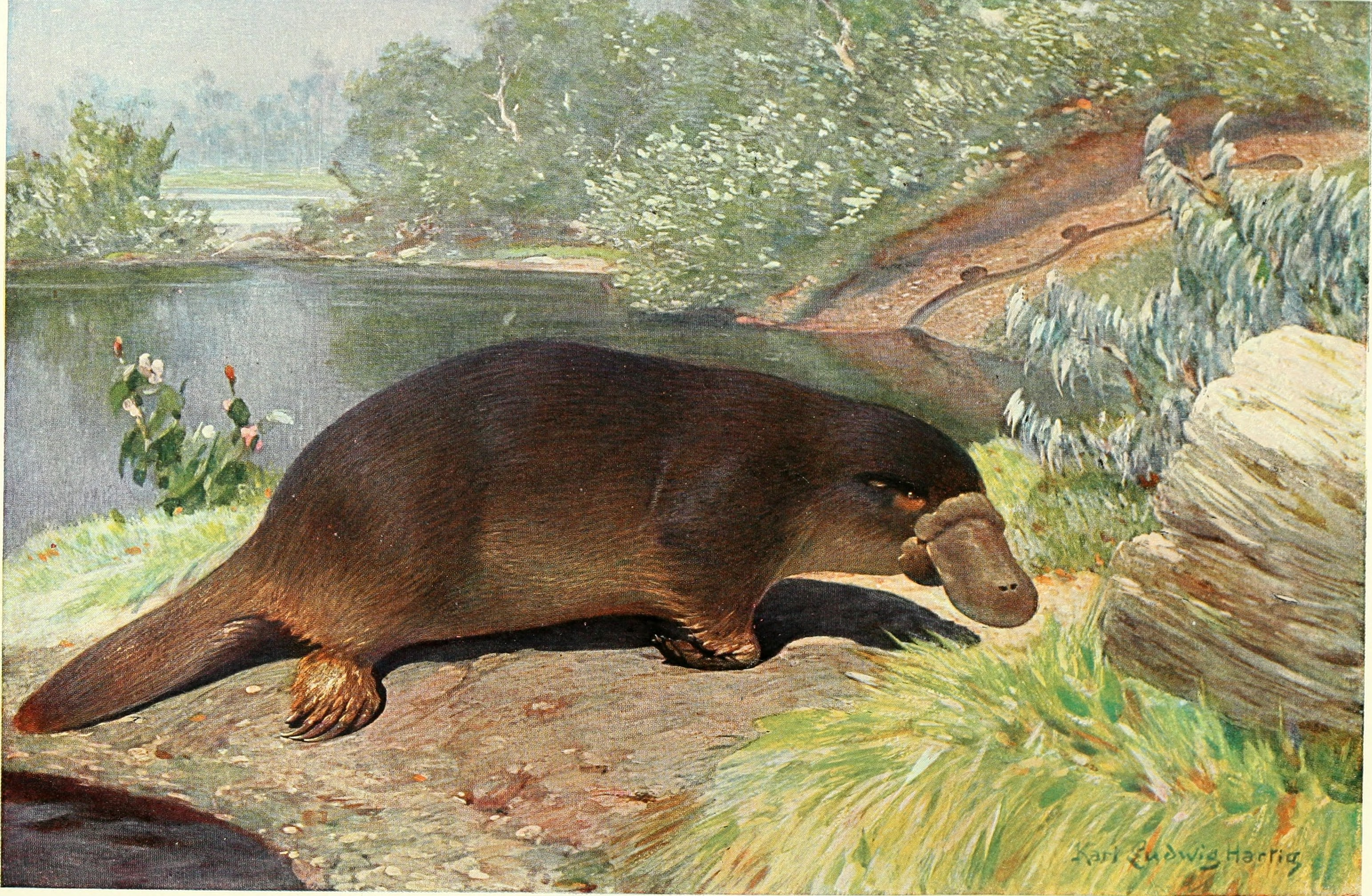 Title: Brehms Tierleben. Allgemeine kunde des Tierreichs Year: 1911 (1910s) Authors: Brehm, Alfred Edmund, 1829-1884; Zur Strassen, Otto L. , 1869-; Heck, Ludwig, 1860-; Hempelmann, Friedrich, 1878-; Heymons, Richard, 1867-; Werner, Franz, b. 1867; Marshall, William, 1845-; Bibliographisches Institut Leipzig Subjects: Zoology; Animal behavior Publisher: Leipzig, Wien, Bibliographisches Institut Text Appearing Before Image: 3 ^ 1^ Text Appearing After Image: '